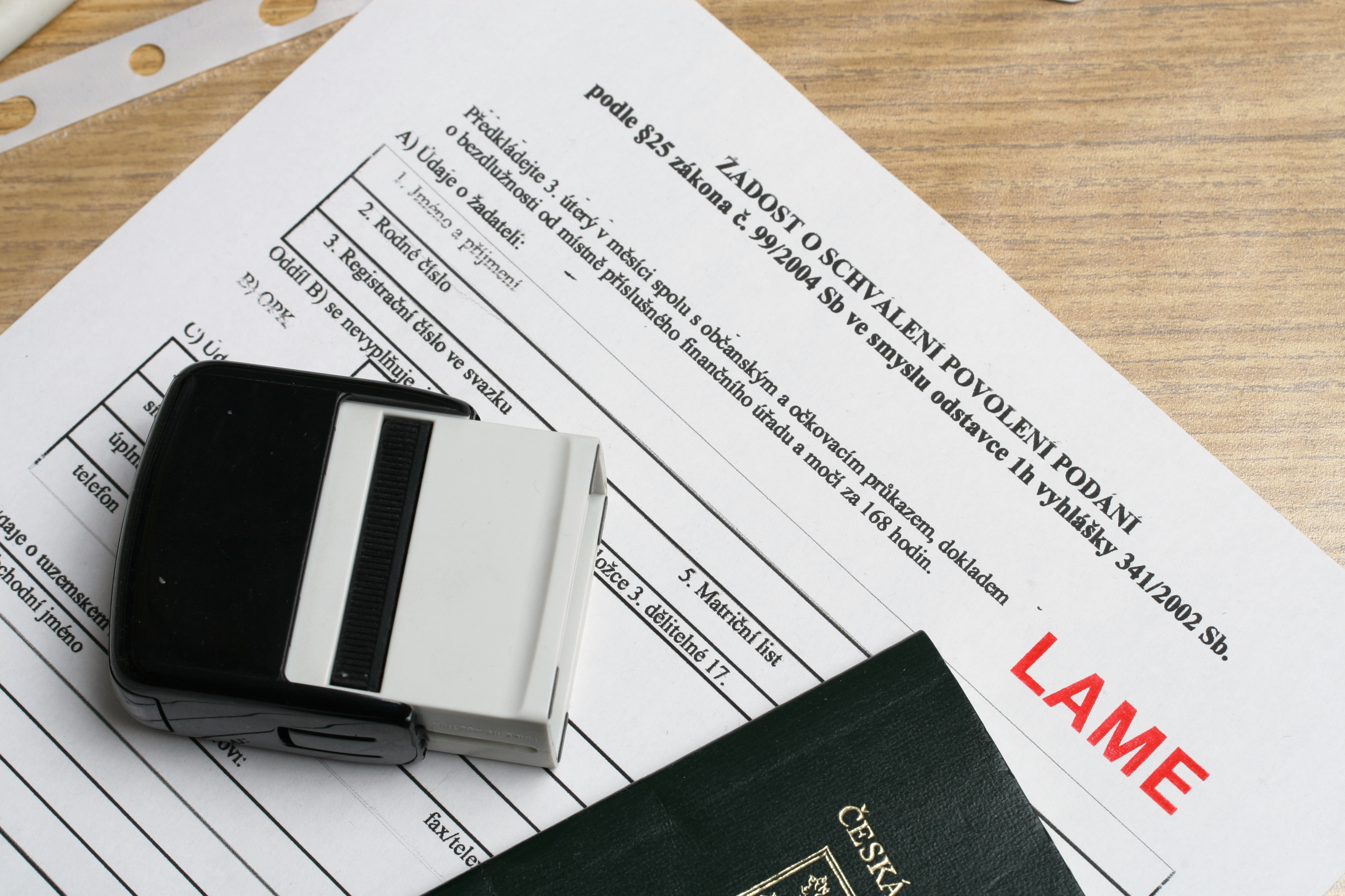 Illustration for the topic of bureacracy. The form is fictional.